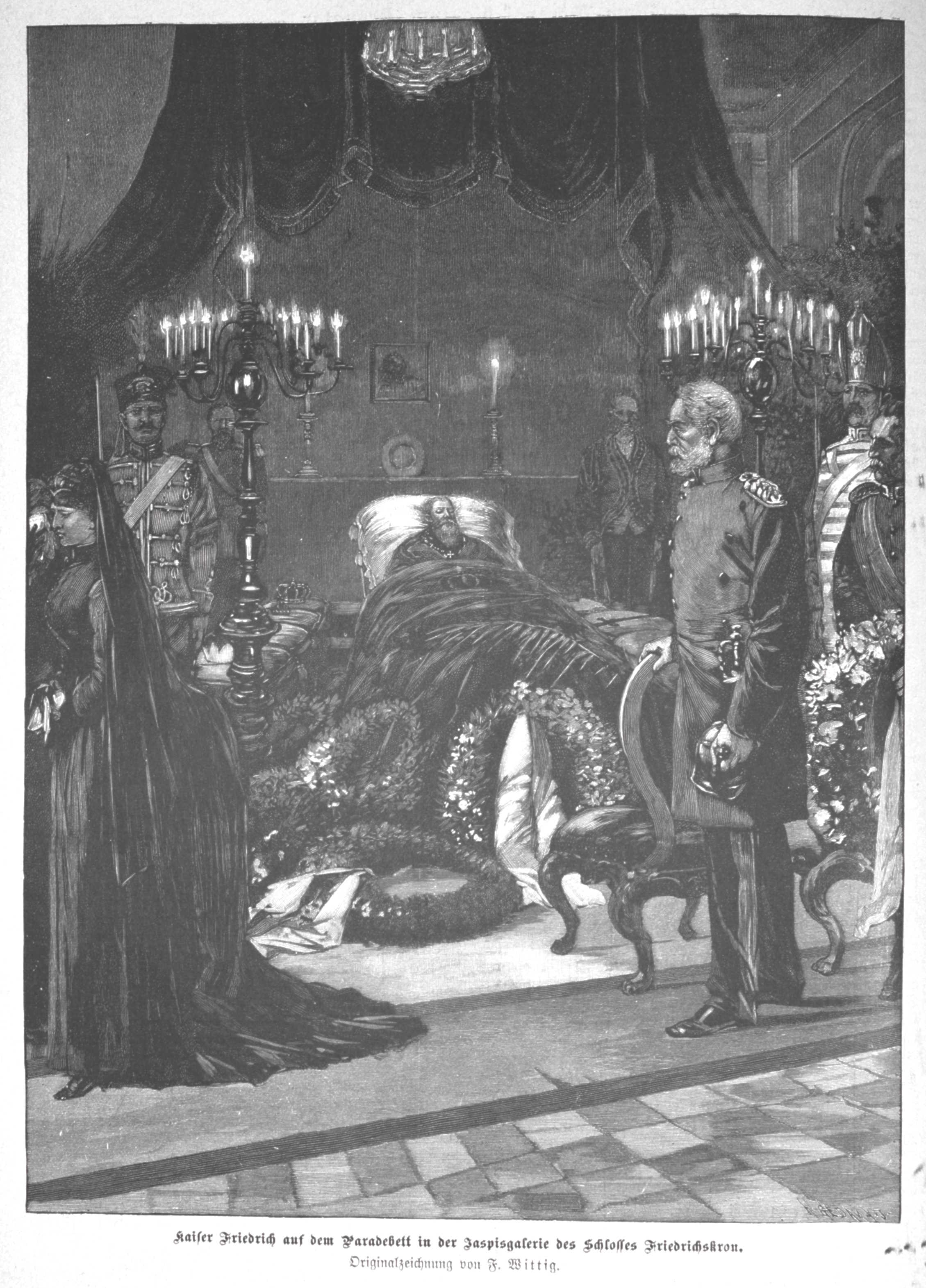 caption: "Kaiser Friedrich auf dem Paradebett in der Jaspisgalerie des Schlosses Friedrichskron.Originalzeichnung von F. Wittig."